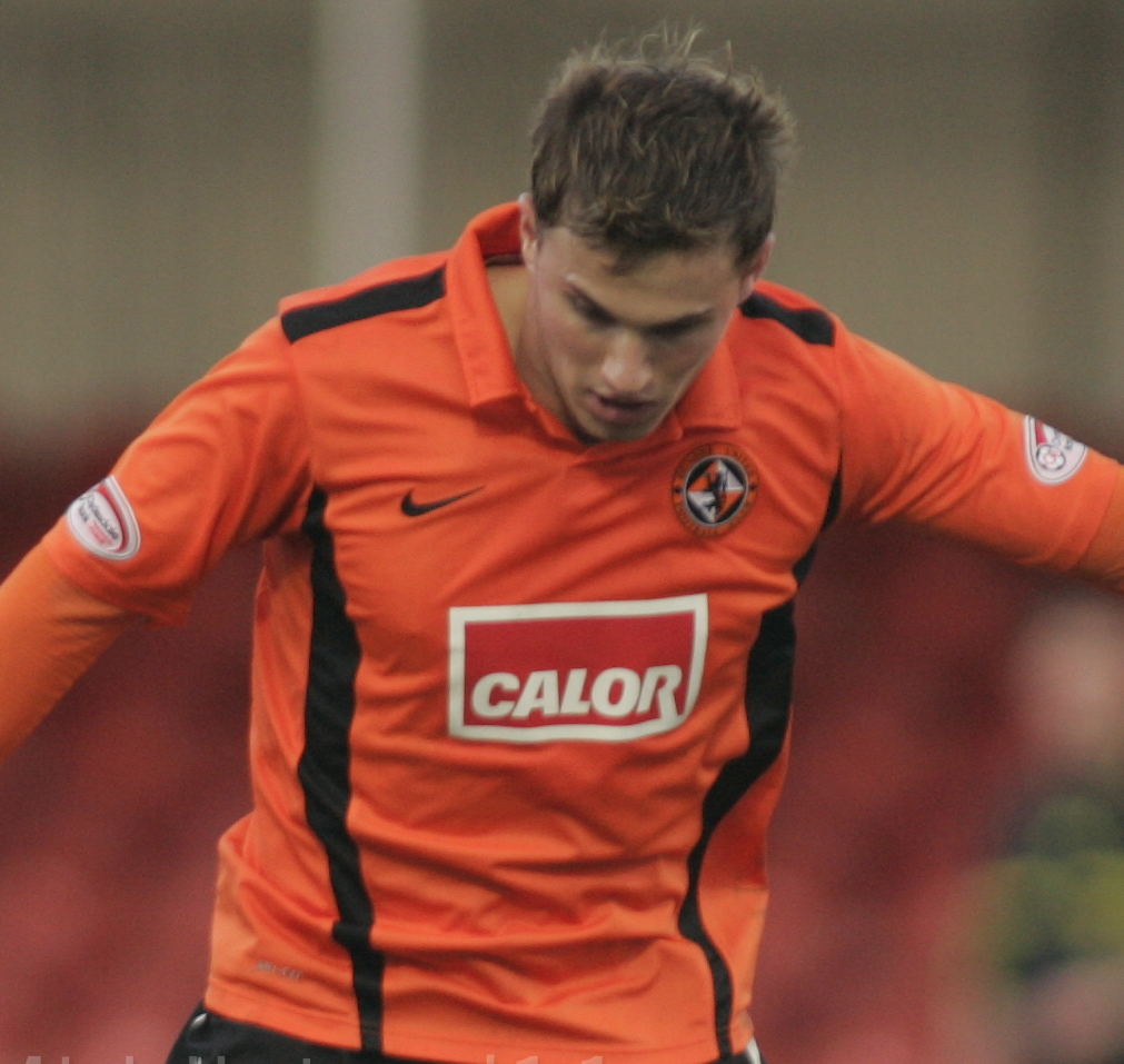 Clydesdale Bank Scottish Premier League - Hamilton Academical vs Dundee United. Dundee Utd's David Goodwille gets caught wrong footed on the edge of the Hamilton box During the 1-1 draw at New Douglas Park, Hamilton. Picture : Alasdair Middleton/Universal News & Sport (Scotland) Saturday 26th February 2011 Universal News and Sport (Europe) All pictures must be credited to (0ffice) 0844 884 51 22